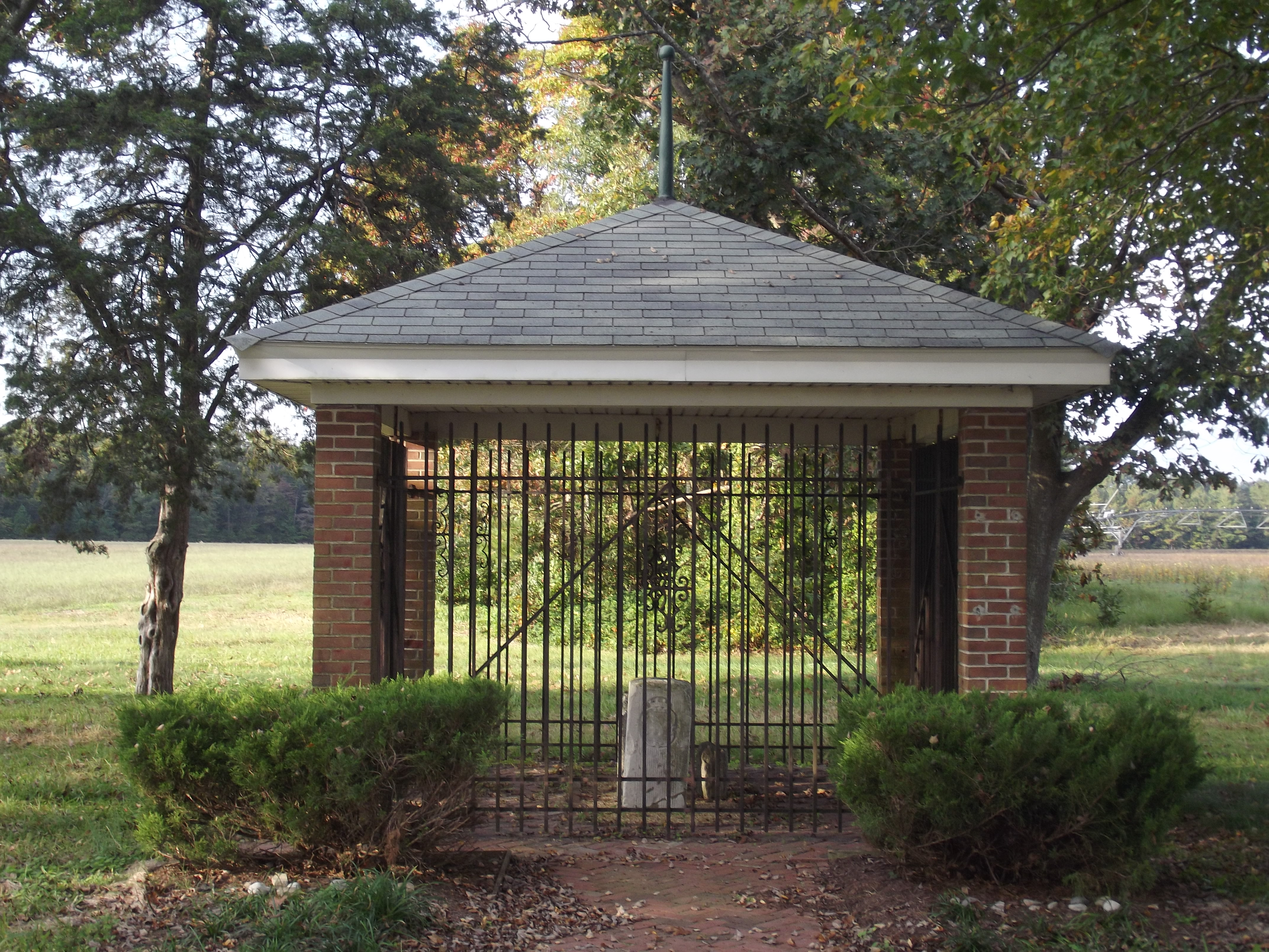 Mason-Dixon Monument - Delaware / Maryland